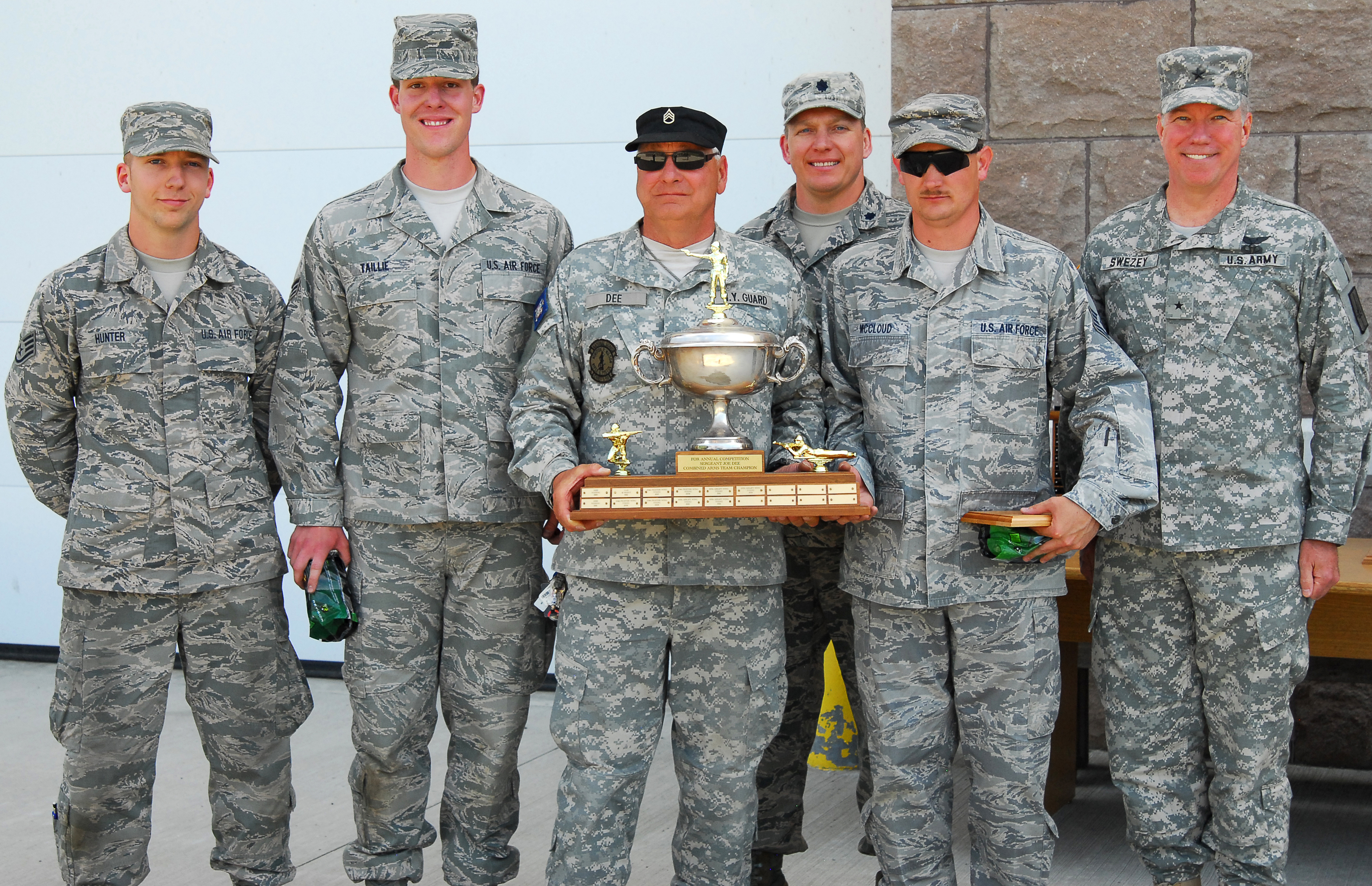 New York Guard Staff Sgt. Joe Dee stands front and center holding the "Sergeant Joe Dee Combined Arms Team Champion' which was presented to a team from the New York Air National Guard's 174th Airlift Wing during the New York National Guard's annual The Adjutant Generals (TAG) Match held here May 30-June 1. Dee, who retired from the New York Army National Guard in 2007, currently serves in the New York Guard,the state's volunteer defense force. The award honored his commitment to the New York National Guard marksmanship program. Joining the group is Brig. Gen. Michael Swezey, commander of the 53rd Troop Command.